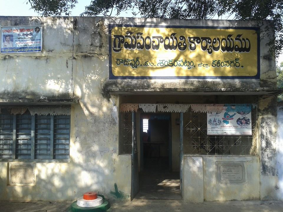 రాజాపూర్ గ్రామ పంచాయితి కార్యాలయం